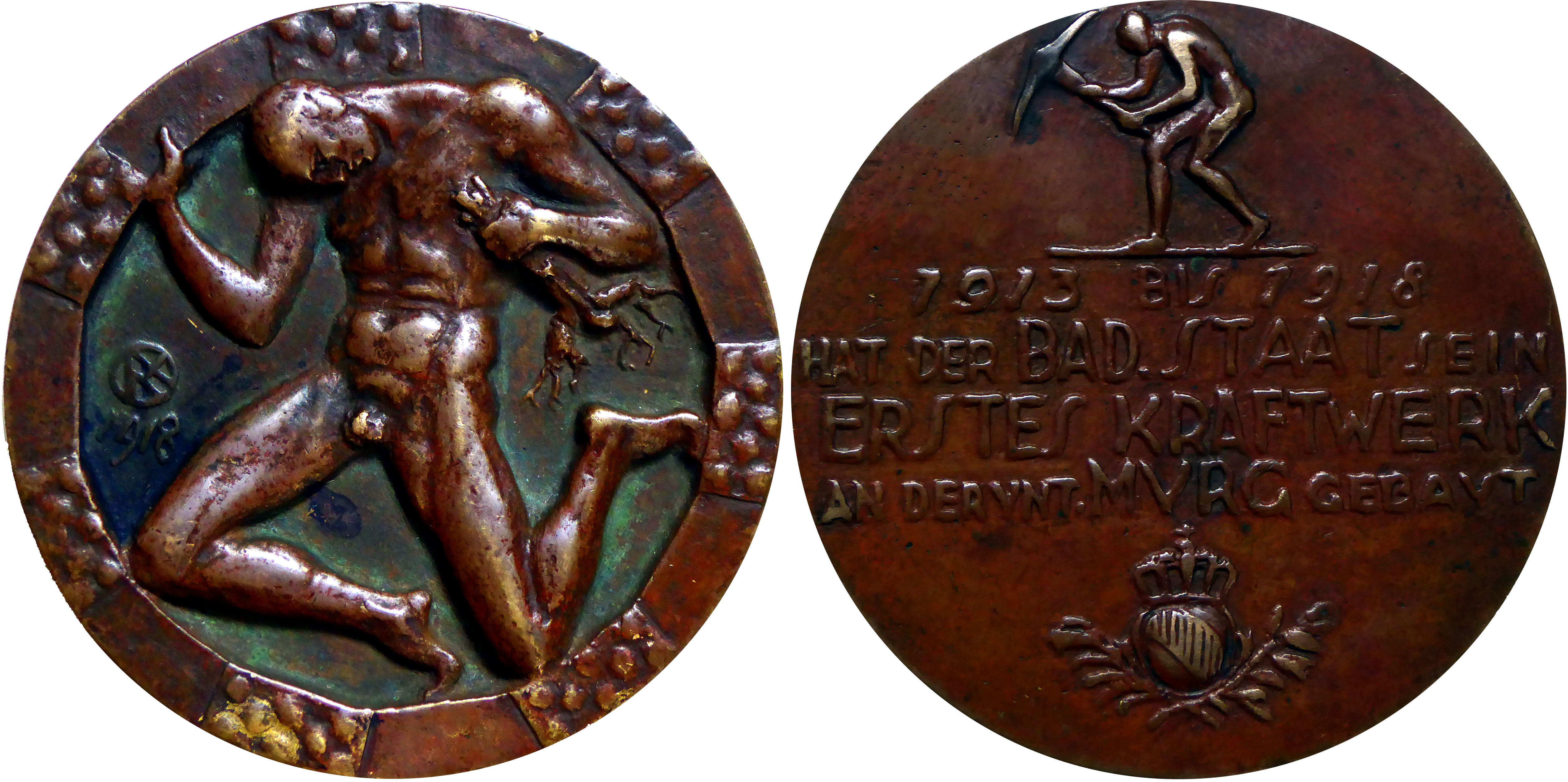 Medal of Rudolf Kowarzik (1871-1940) for the opening of the Rudolf-Fettweis-Werk / Murgtal (Power station) in the year 1918. Bronze, diameter 82mm, thickness 7mm, weight 207g. Front monogrammed (RK) 1918, labeled back: "1913 BIS 1918 HAT DER BAD. STAAT SEIN ERSTES KRAFTWERK AN DER UNT. MURG GEBAUT ", at the edge punk sheet (RK).